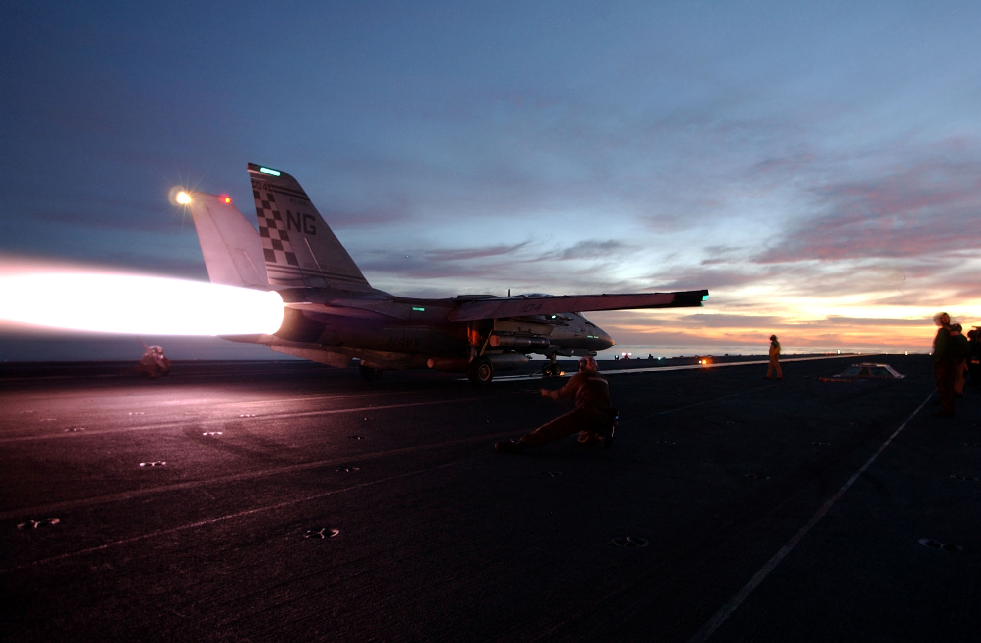 As the sun rises an F-14A "Tomcat" from the "Checkmates" of Fighter Squadron 211 (VF-211) goes to full afterburner as it is launched from the flight deck of USS John C. Stennis (CVN 74).